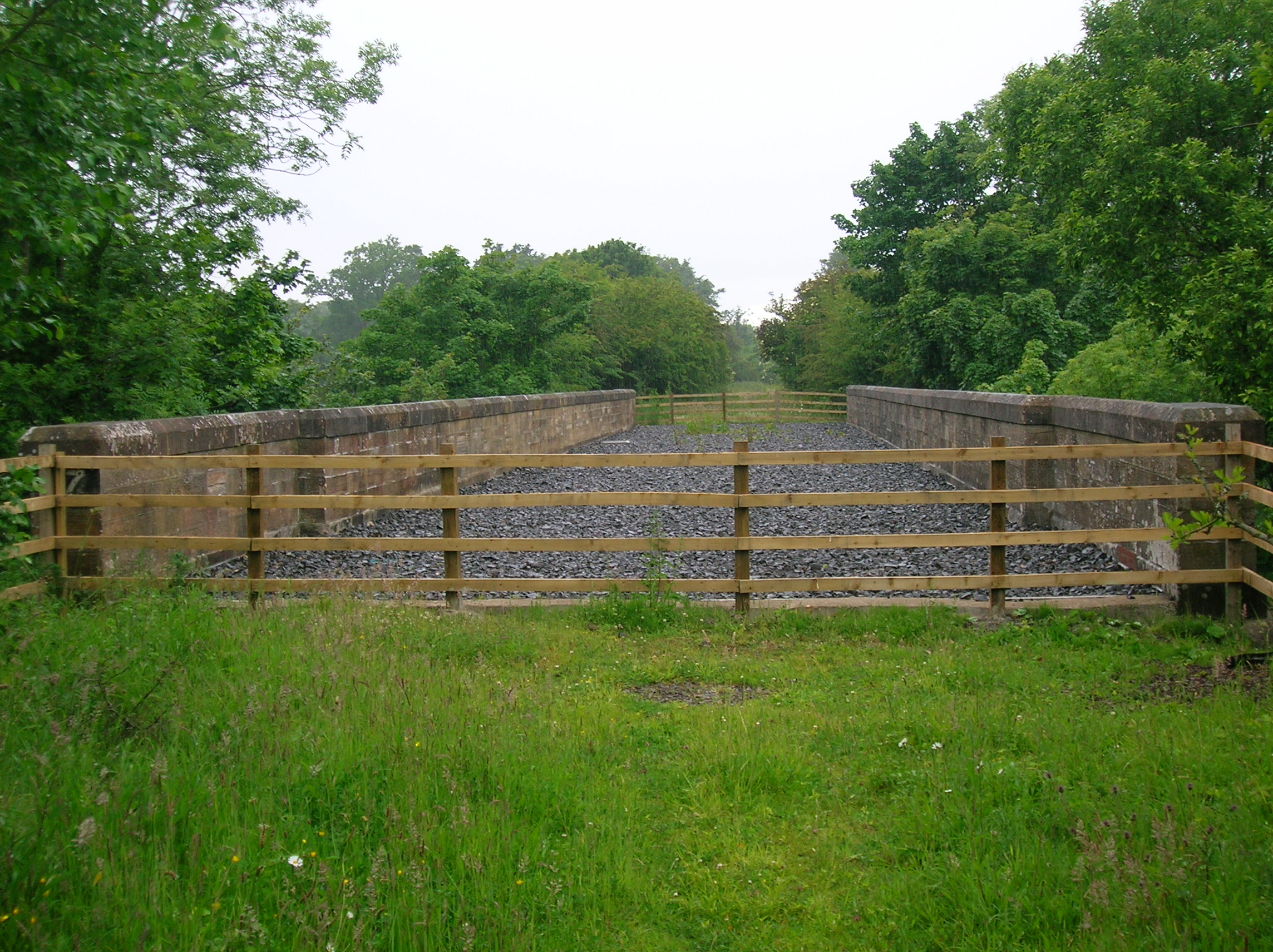 The Annick Viaduct trackbed, Ayrshire, Scotland.